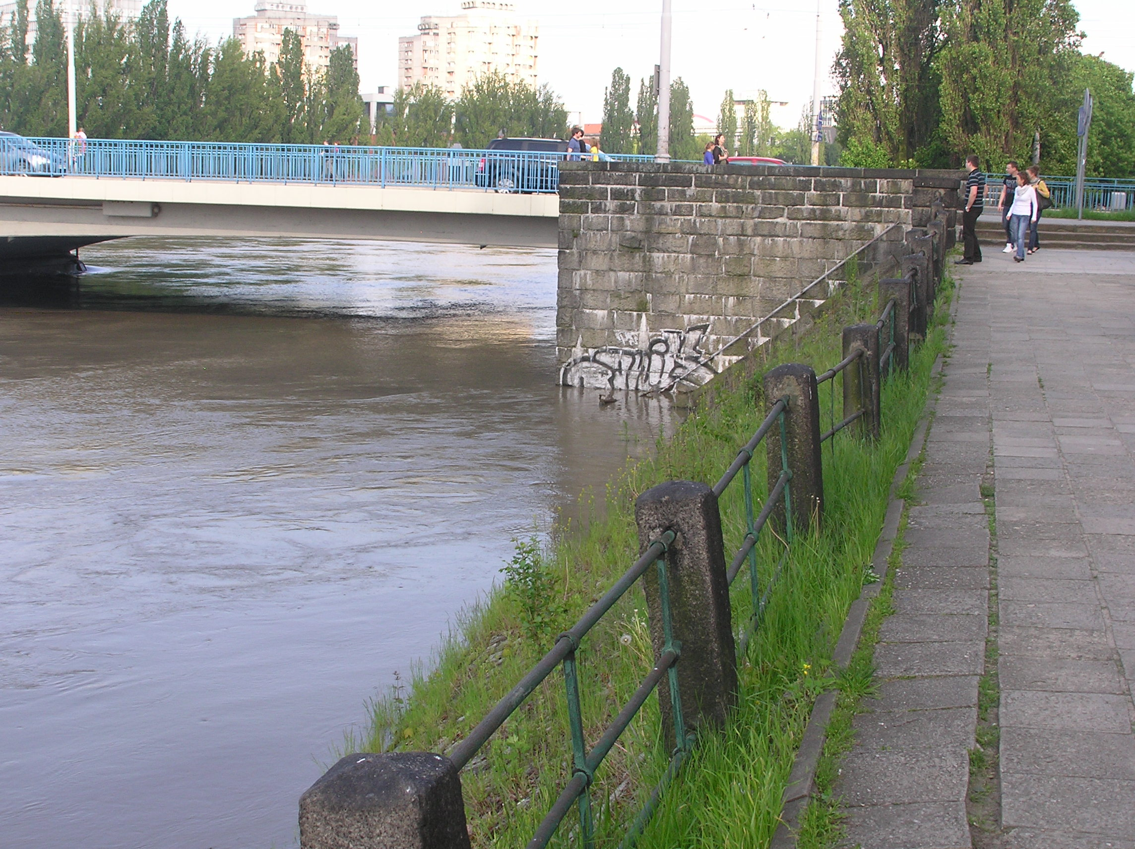 Wrocław, Xawerego Dunikowskiego Boulevard